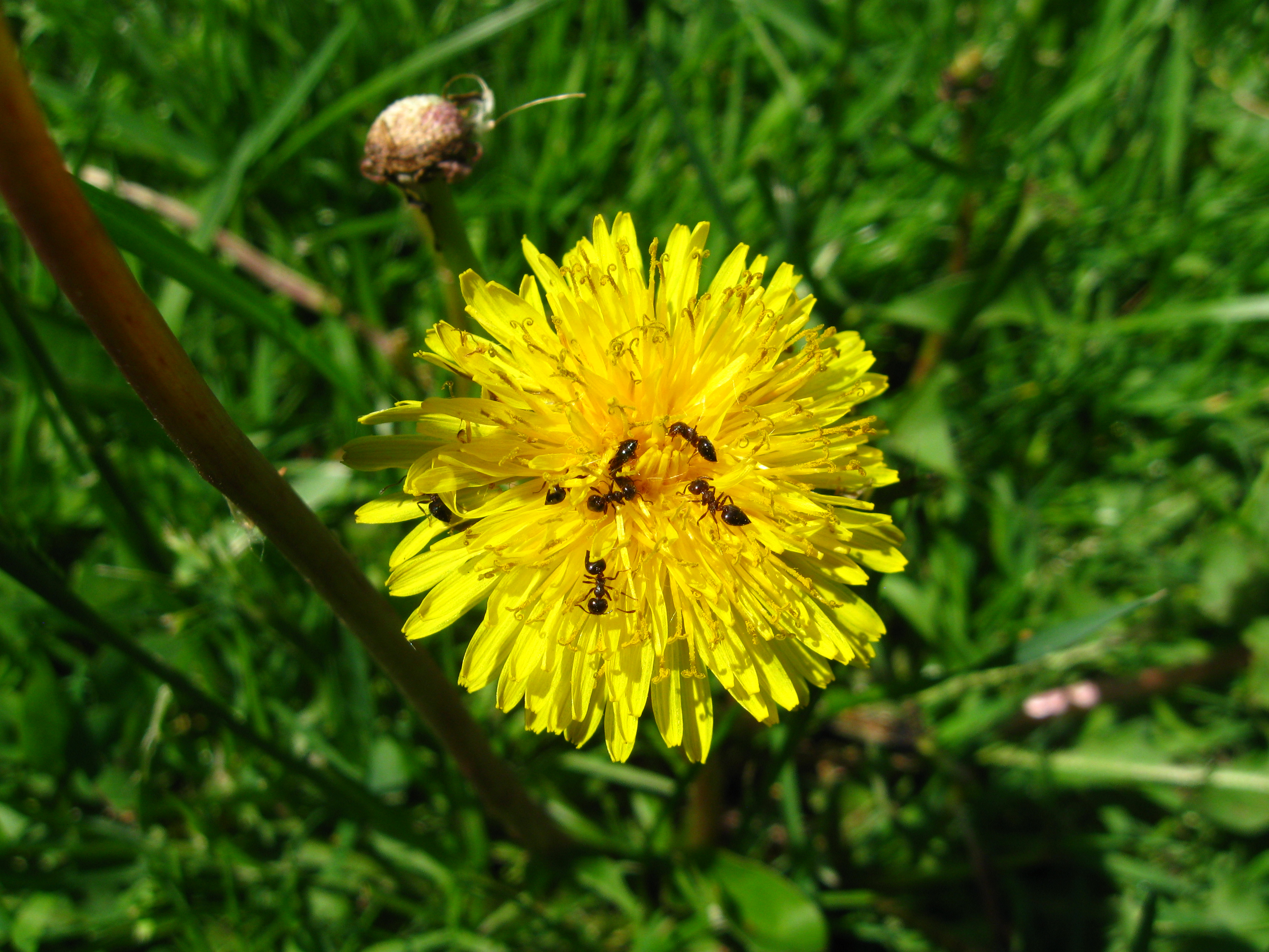 This is a photograph of ants taking nectar from a dandelion.